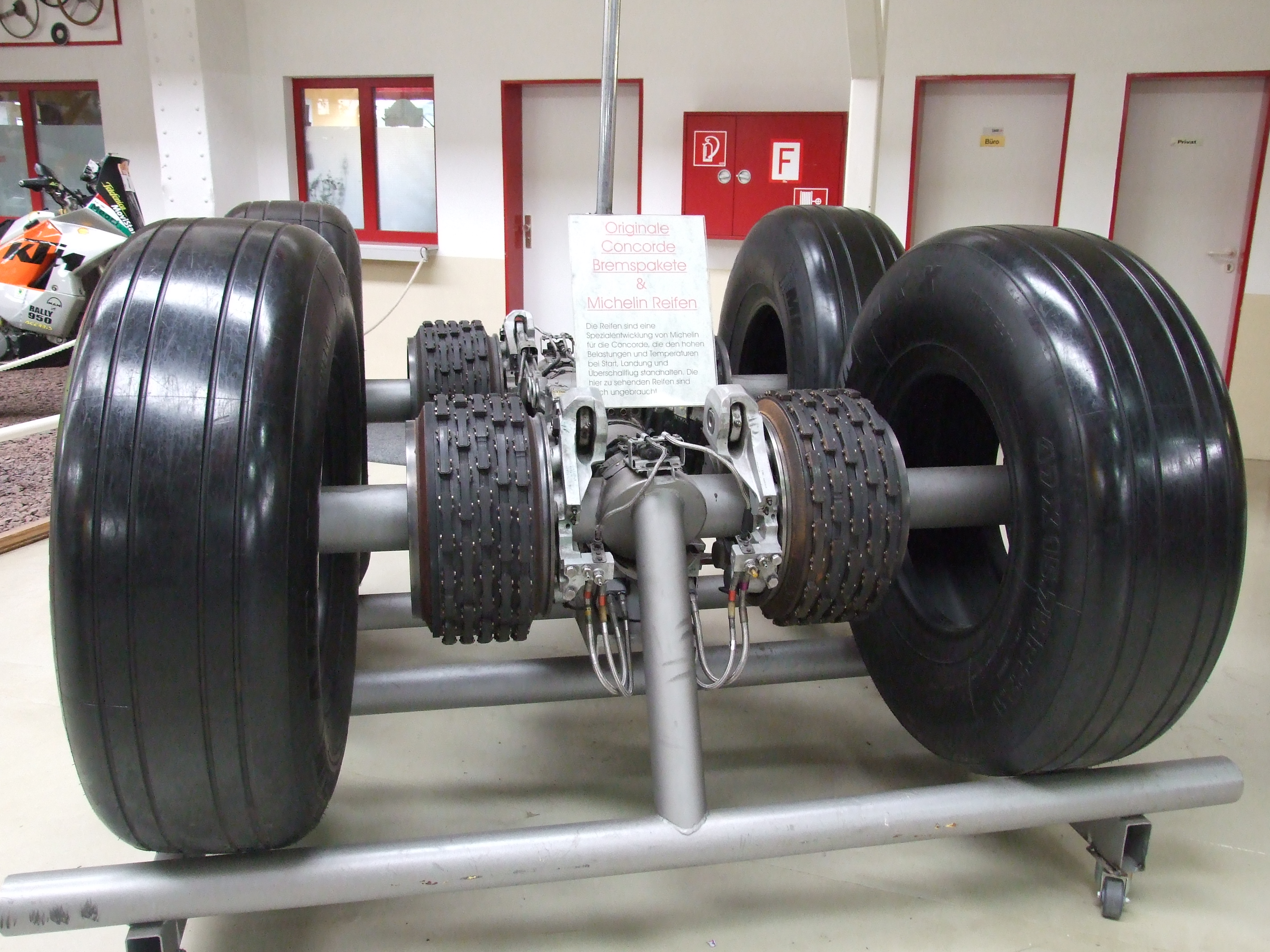 Undercarriage Concorde with disc brakes